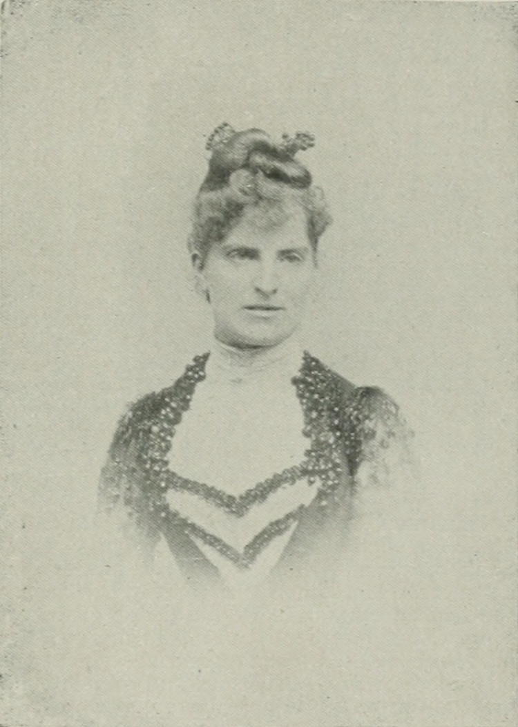 A woman of the century.djvu